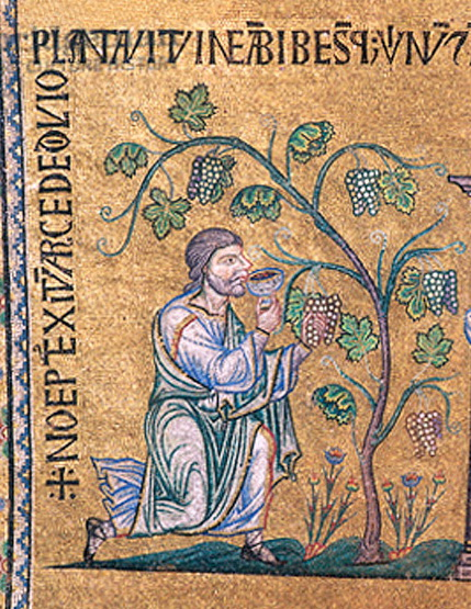 Farmer Noah (Mosaic in Basilica di San Marco)